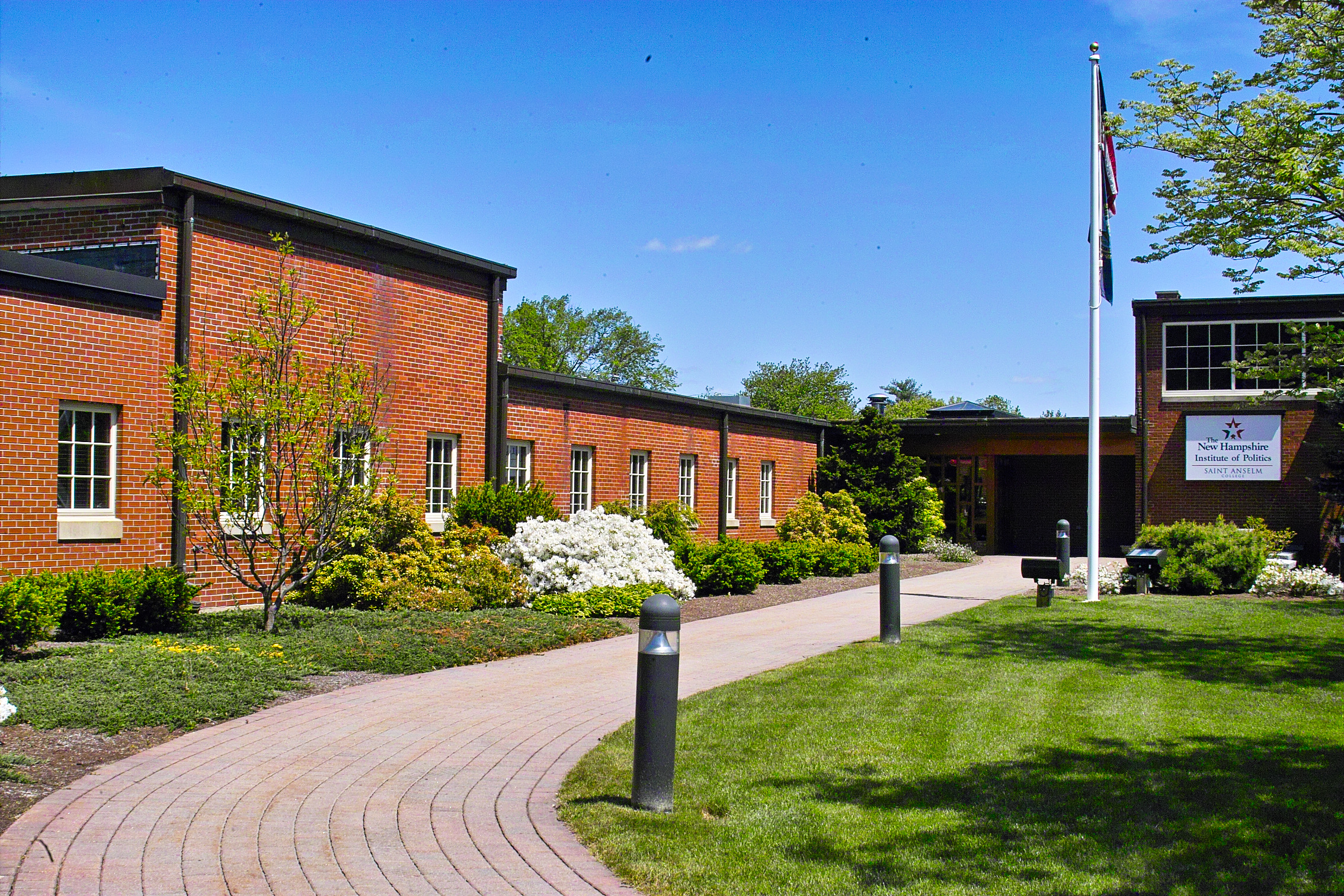 NHIOP entrance1